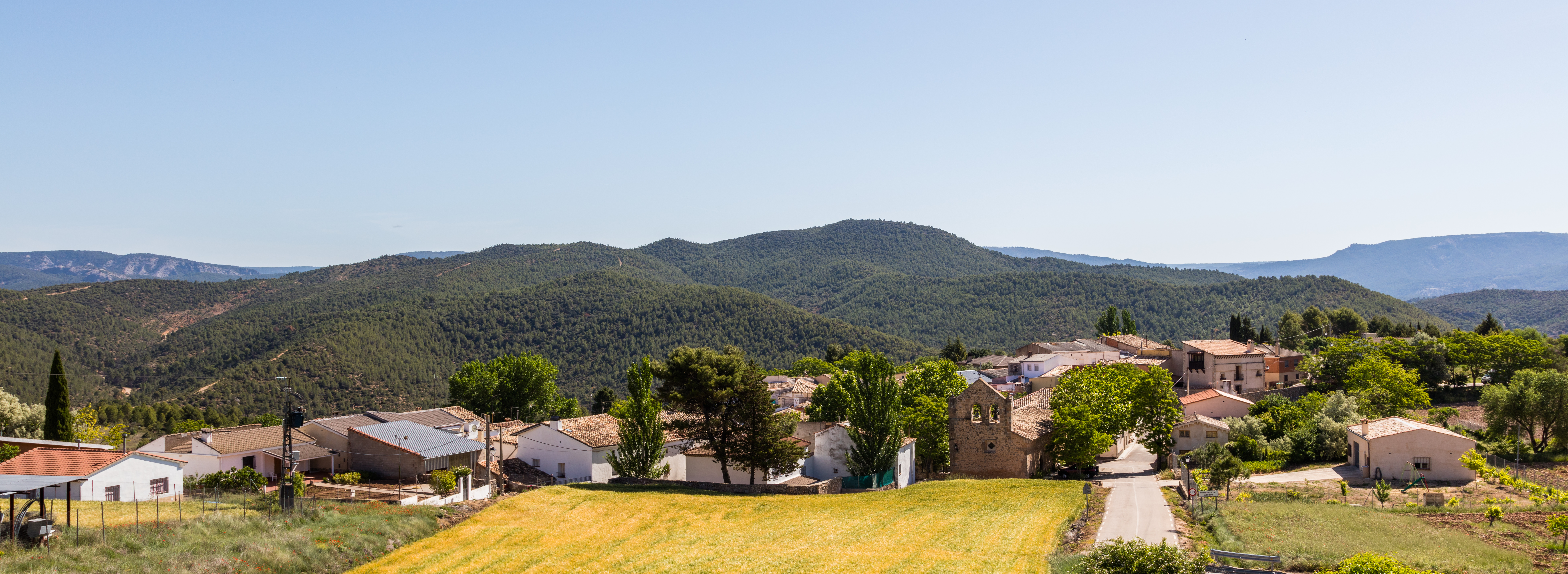 Arandilla del Arroyo, Cuenca, Spain